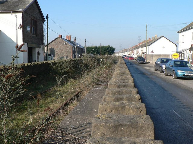 Old railway in Sudbrook, Monmouthshire, Wales. This was never a passenger line but was a goods line to nearby works. It splits the village of Sudbrook in two, separating its two parallel streets.